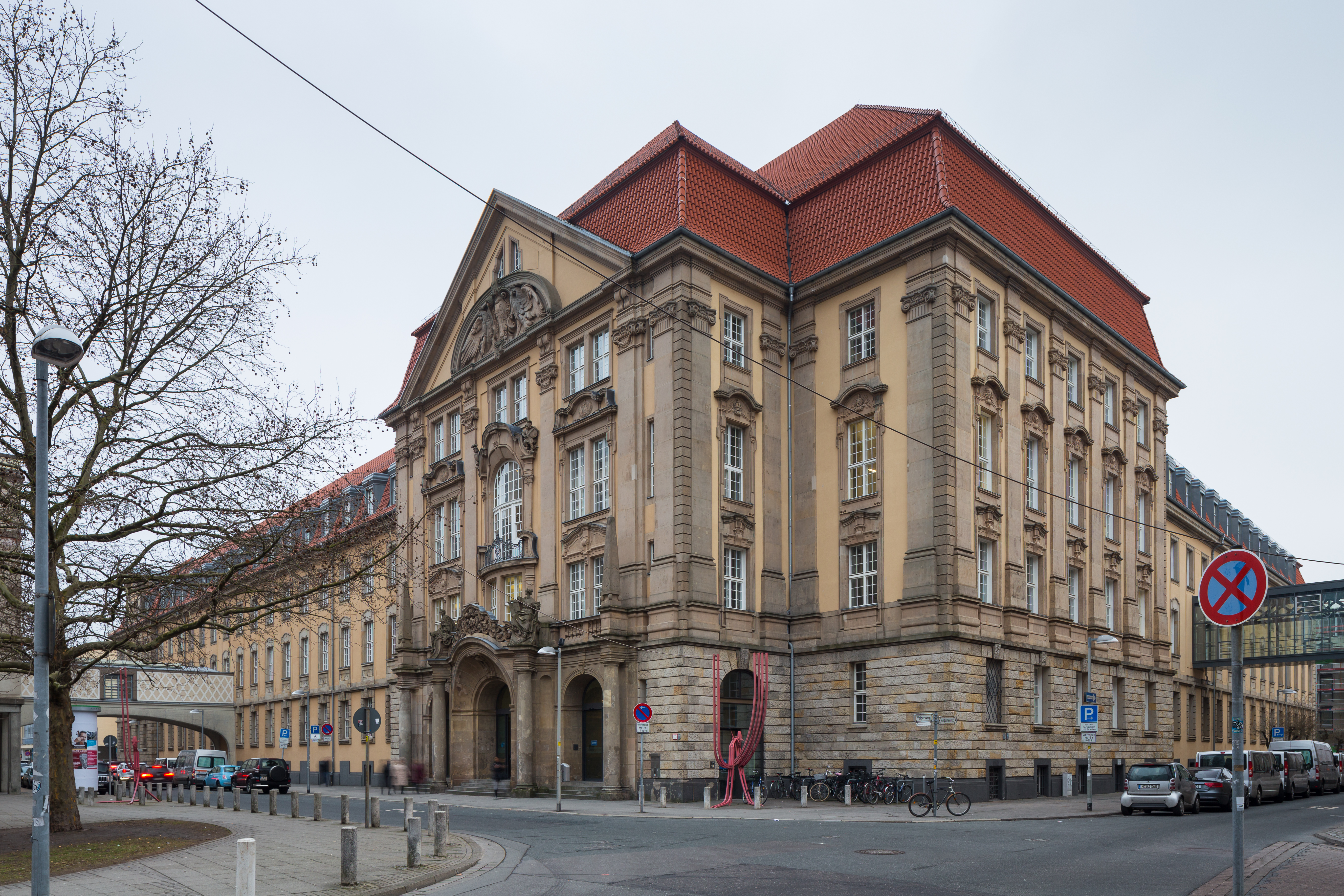 District court of Hannover located at Volgersweg and Augustenstrasse in Mitte district of Hanover, Germany.